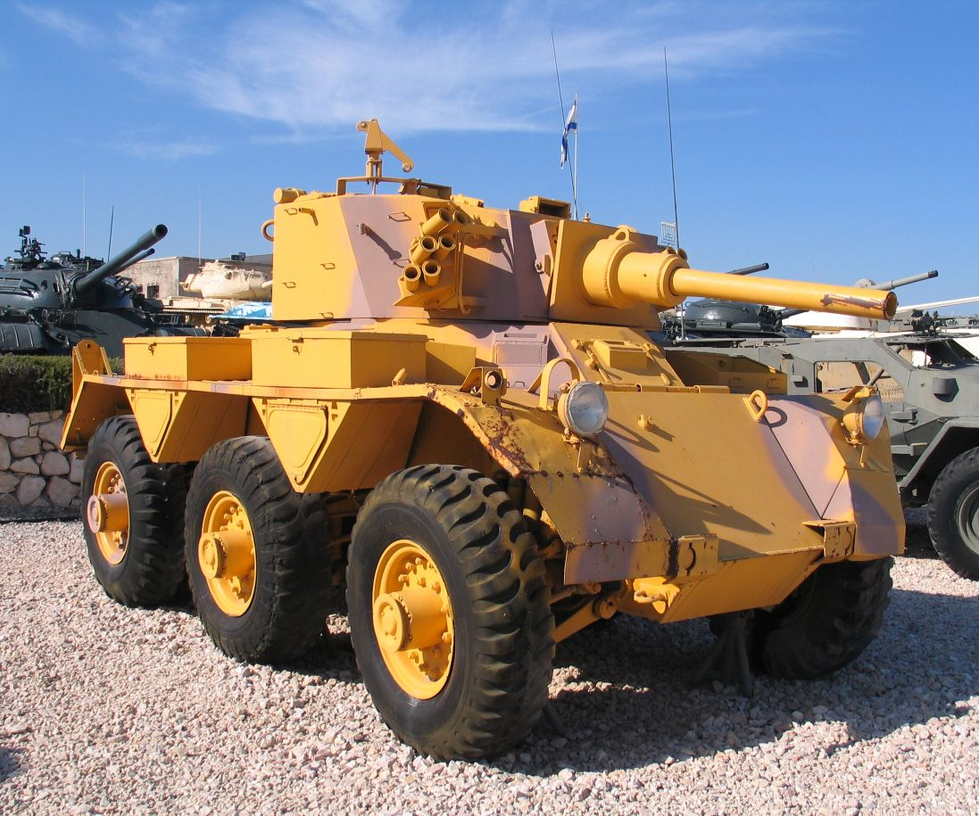 Description: Alvis FV 601 Saladin armored car in Yad la-Shiryon Museum, Israel. 2005. Source: Photo by me, User:Bukvoed.